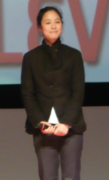 The_Sun_Also_Rises（太阳照常升起）. Actress Zhou_Yun_(周韵).